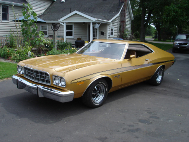 This is a photo of a 1973 Ford Gran Torino Sport. This particular model is the fastback body style, called a "Sportsroof" by Ford. Other information This photo was taken by Peter Maas of his own vehicle and has given permission to be used on Wikipedia.